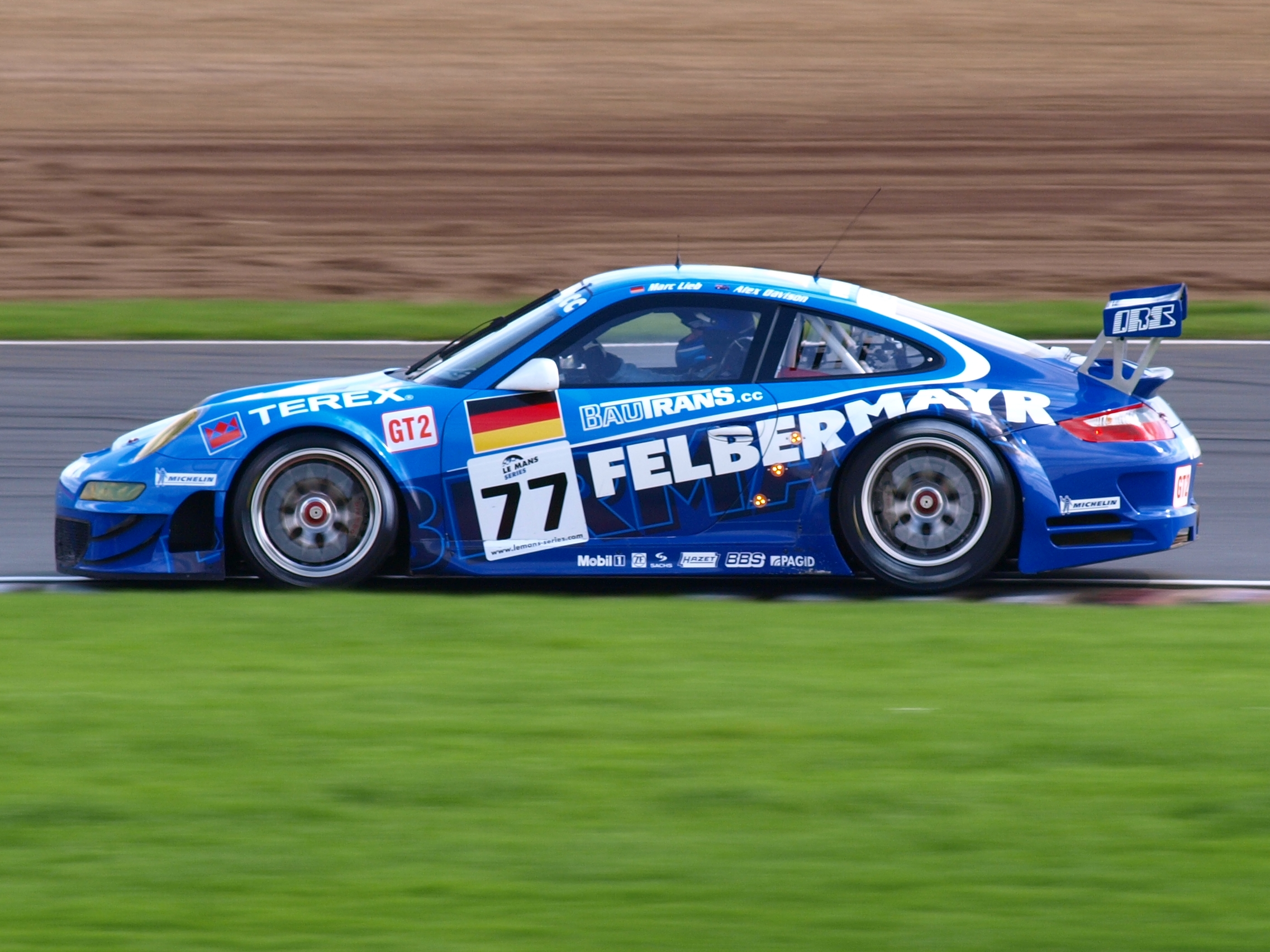 Marc Lieb drivs a Team Felbermayr-Proton's Porsche 997 GT3-RSR at the 2008 1000km of Silverstone.